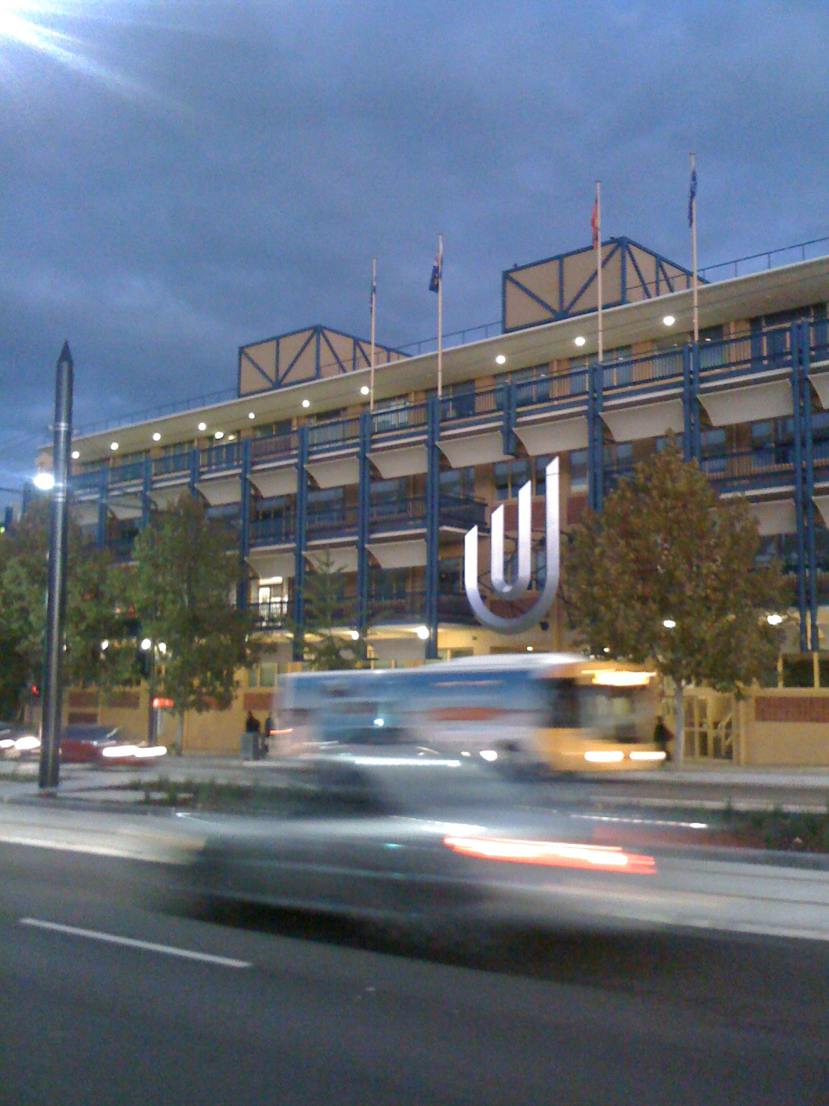 Photo of UniSA's City West campus